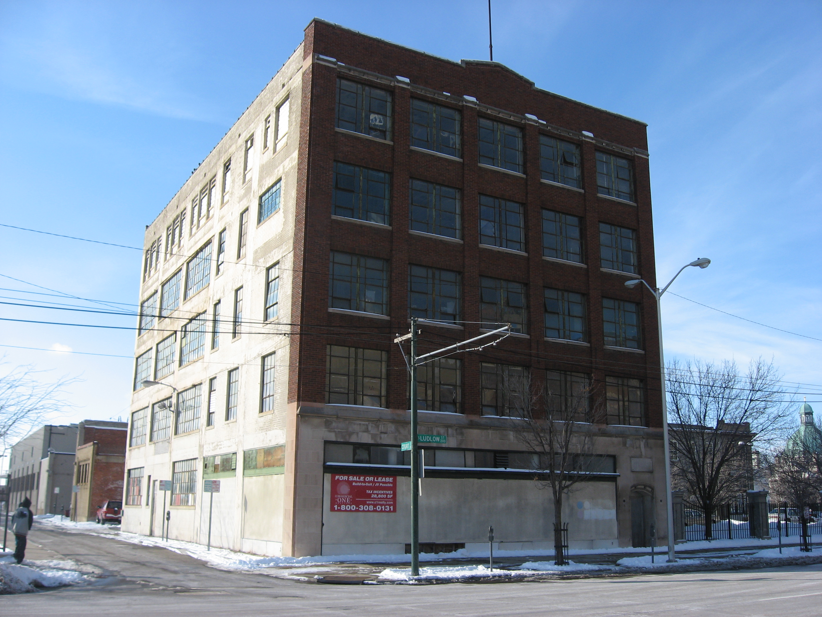 Front and southern side of the Graphic Arts Building, located at 221-223 S. Ludlow Street in downtown Dayton, Ohio, United States. Built in 1925, it is listed on the National Register of Historic Places.